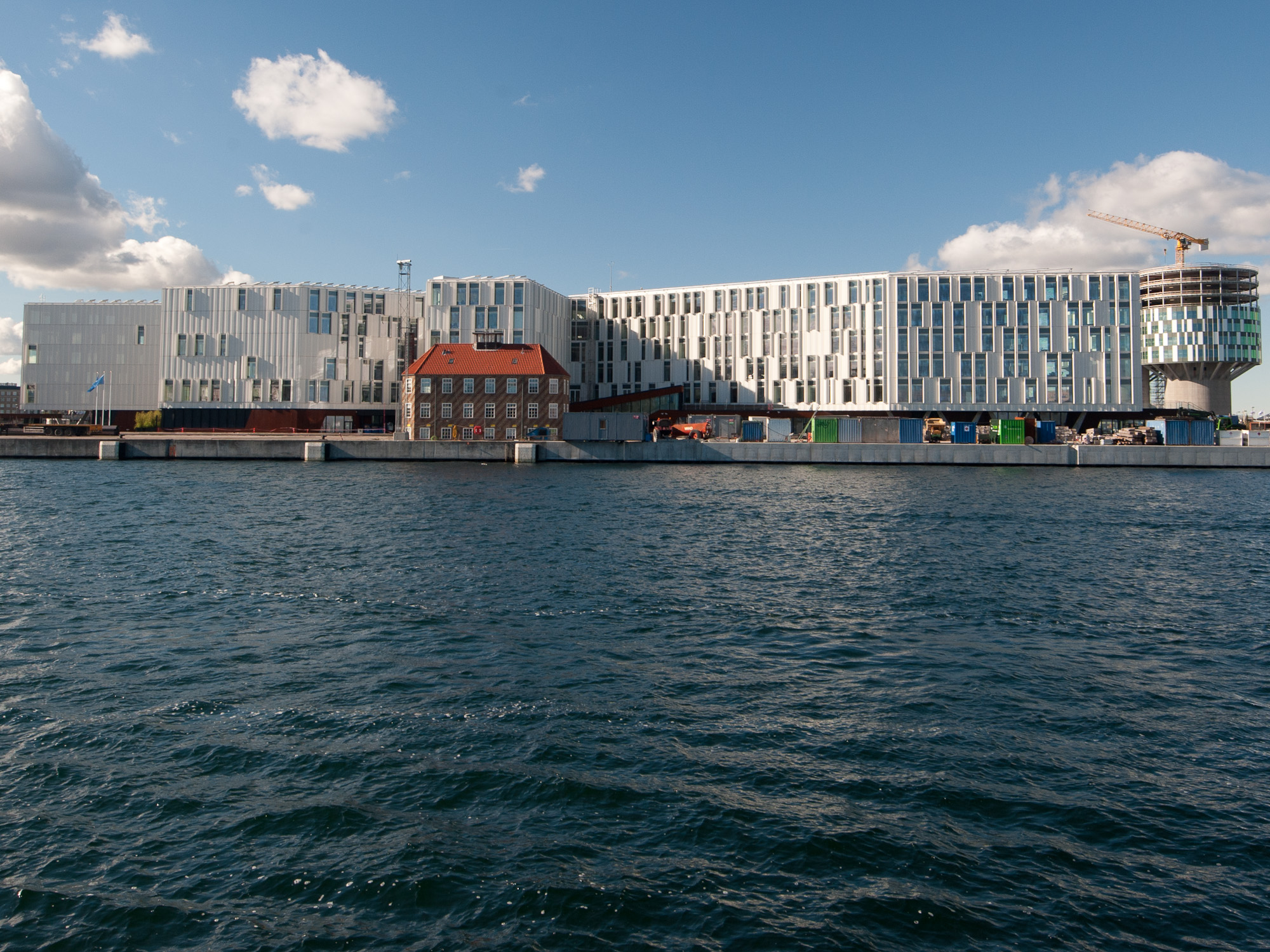 UN City in Copenhagen (the red building in front, and the silo to the right is not a part of UN City).